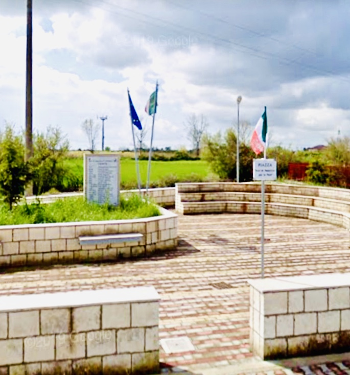 Piazza Nassirya